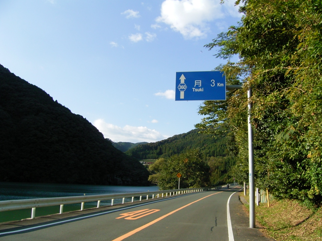 This sign says '3km to the Moon' in Japanese. There is a village named 'Tsuki' that means moon in Japanese